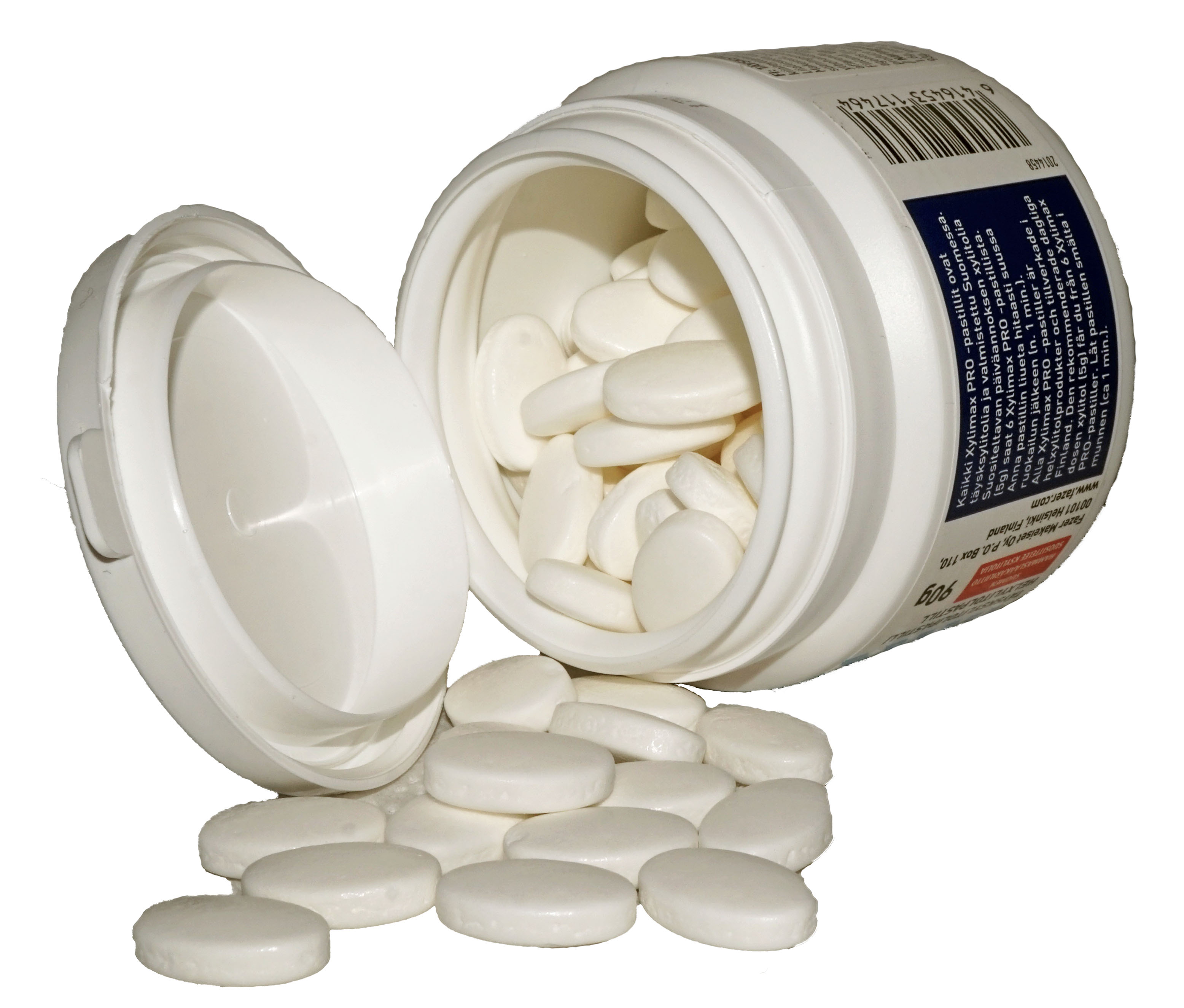 Xylitol pastilles (90 grams) Xylimax Eucamenthol. Producted Fazer. Includes 93% xylitol.